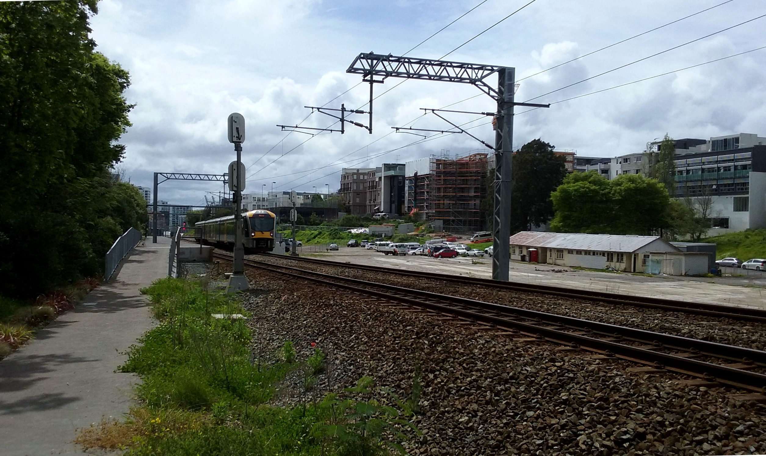 The Parnell Railway Station under construction. From the Domain entrance to the station. A building from the former Mainline Steam depot is visible in the background.